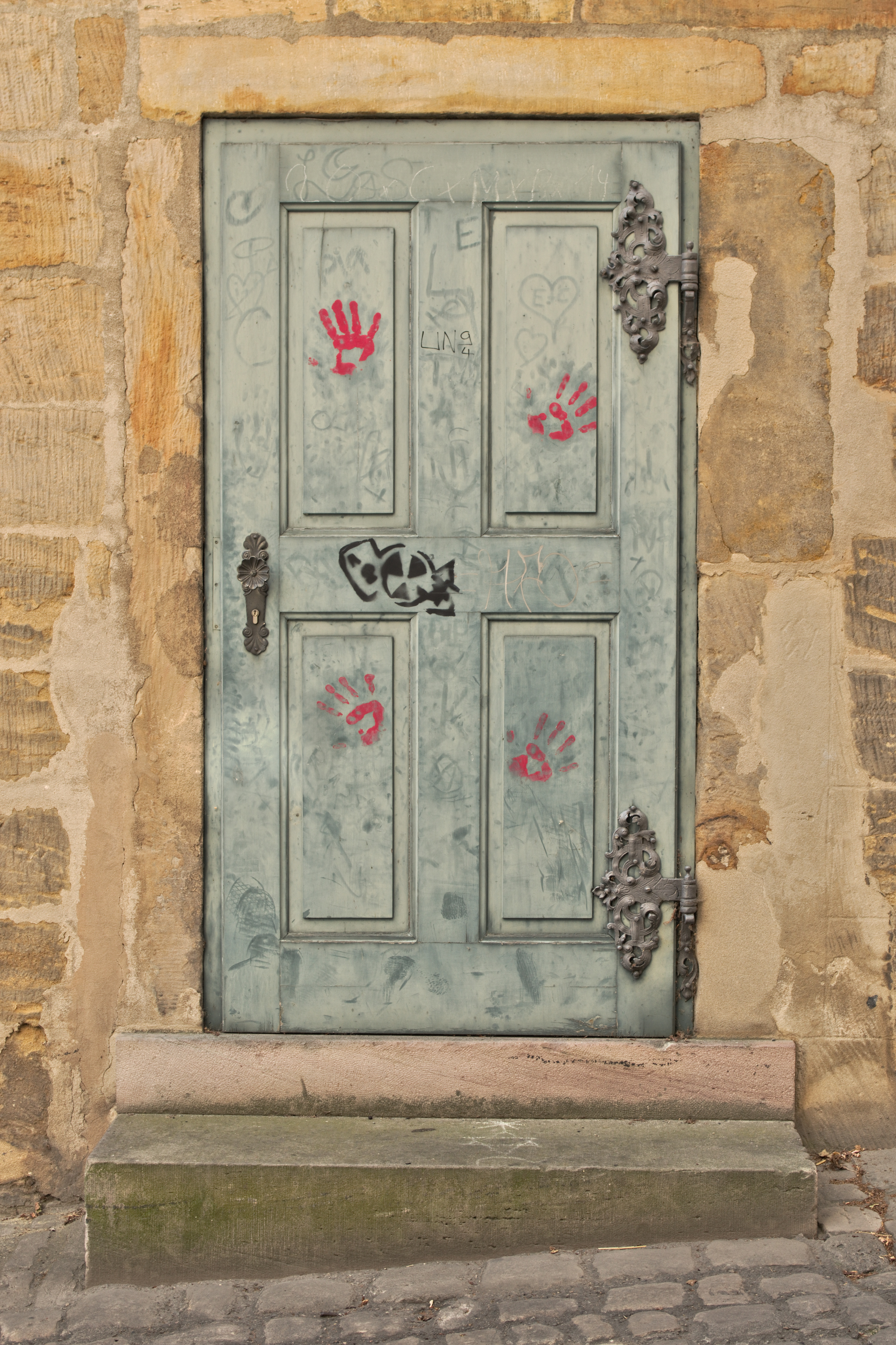 An old wooden door in Bamberg, Germany. This is a side-entrance to the house at Domplatz 4.